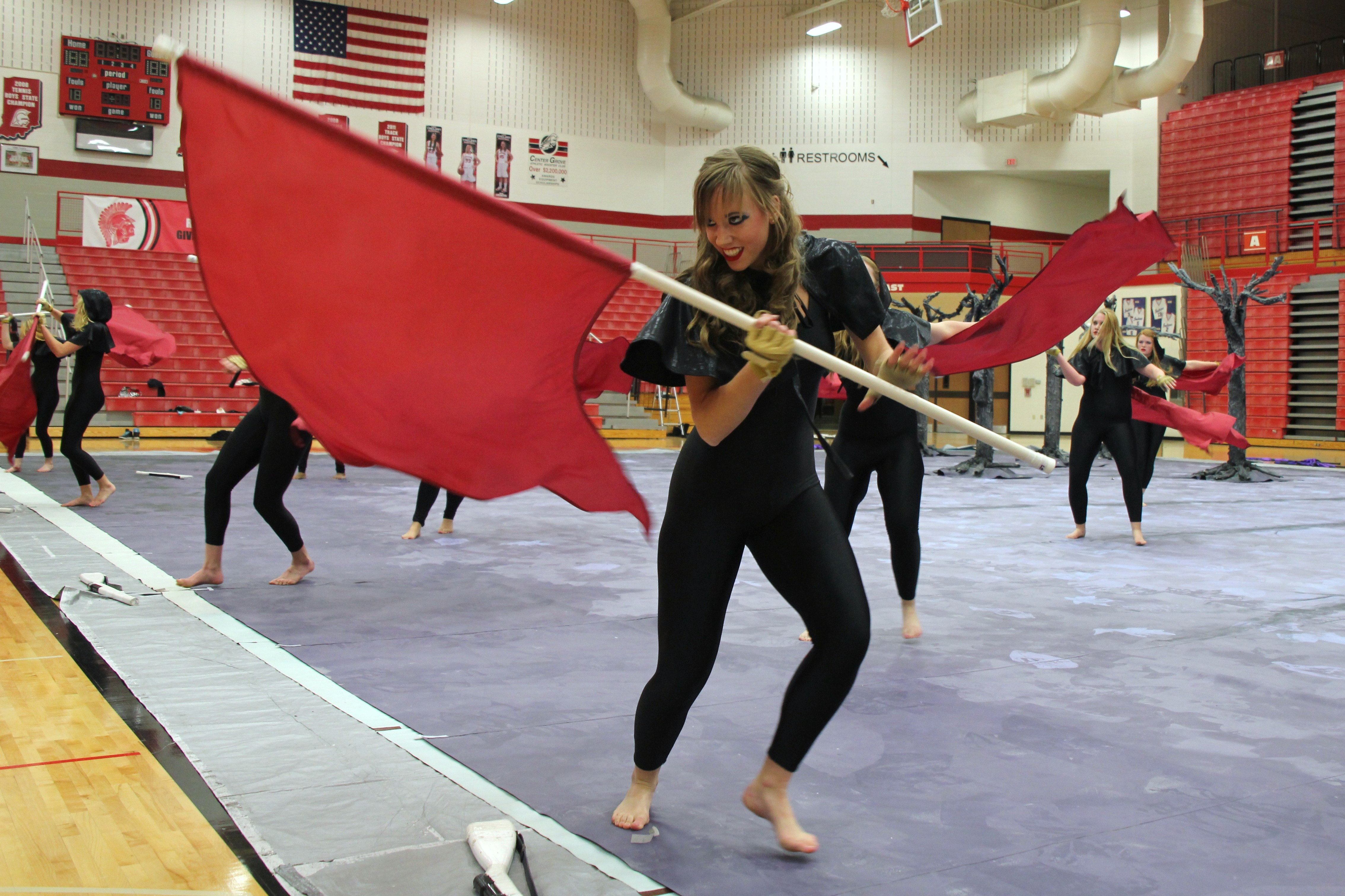 2012-01-25 Winter Guard Preview Show Photographer: John Simon